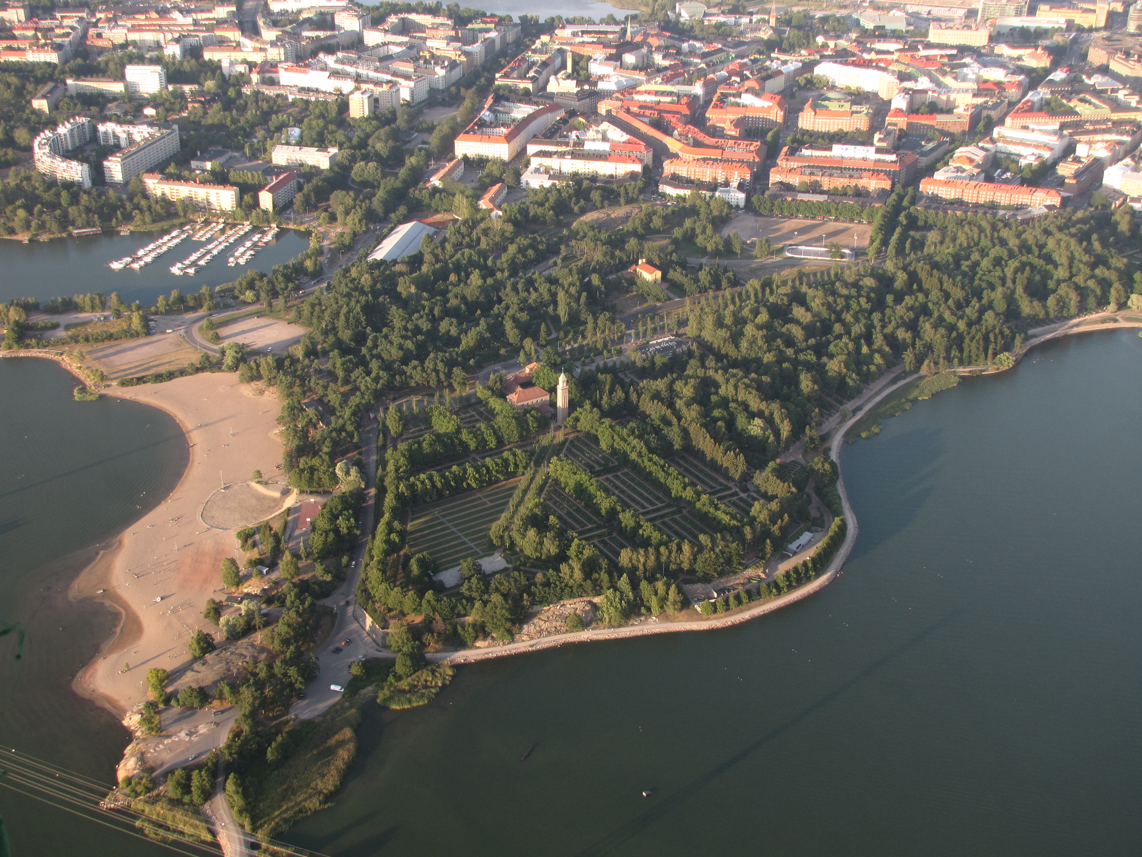 Hietaniemi cape photographed from a hot air balloon. Hietaniemi cemetery and Hietaniemi beach.